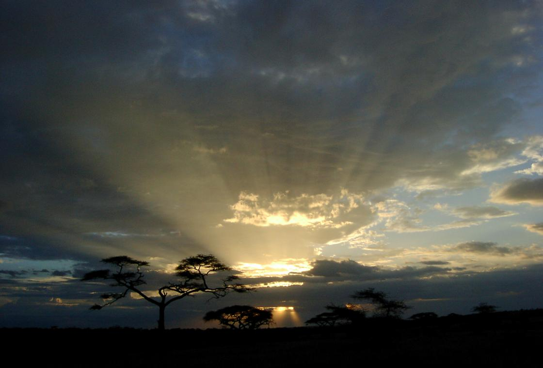 Serengeti, sunset, savanna, Tanzania, Africa